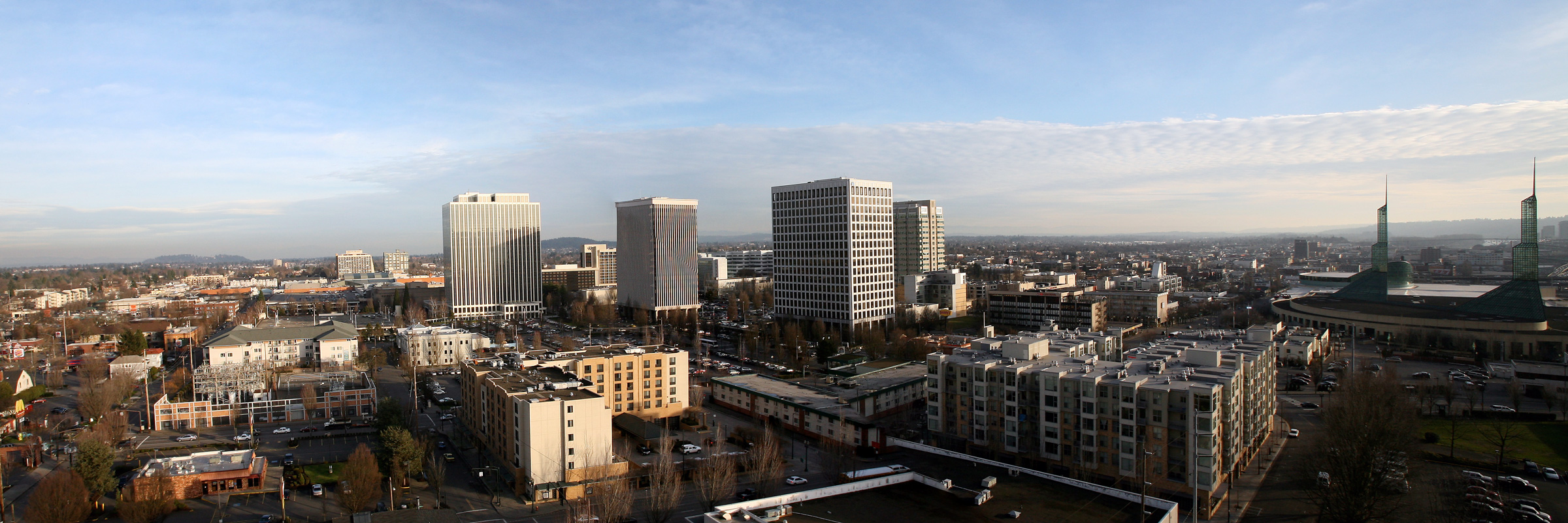 A panoramic image of the Lloyd District of Portland, Oregon. The Oregon Convention center is at right.